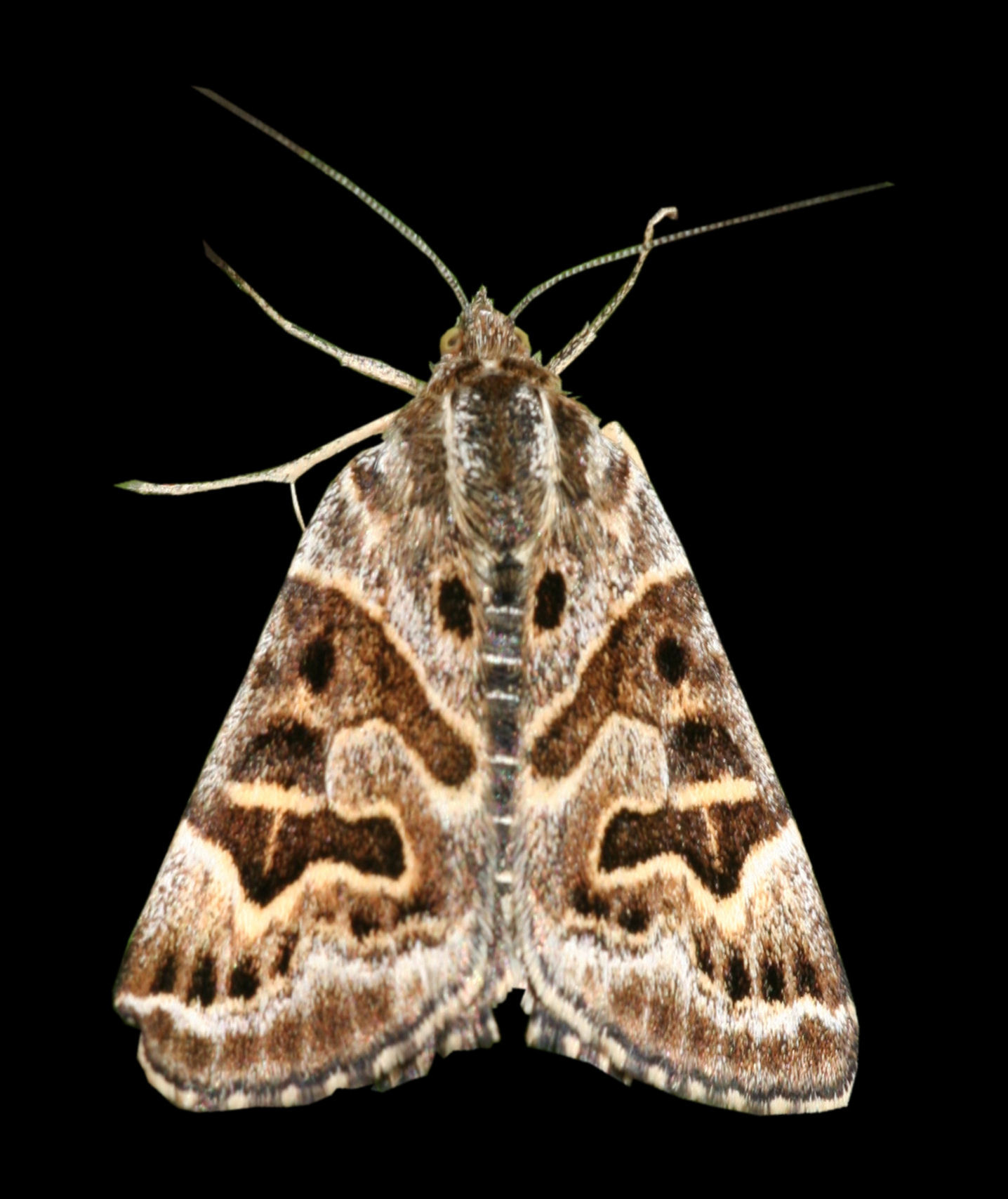 Mother Shipton Moth, named after the pattern on its wings resembling the face of a hag.